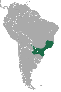 Southeastern Four-eyed Opossum (Philander frenatus) range